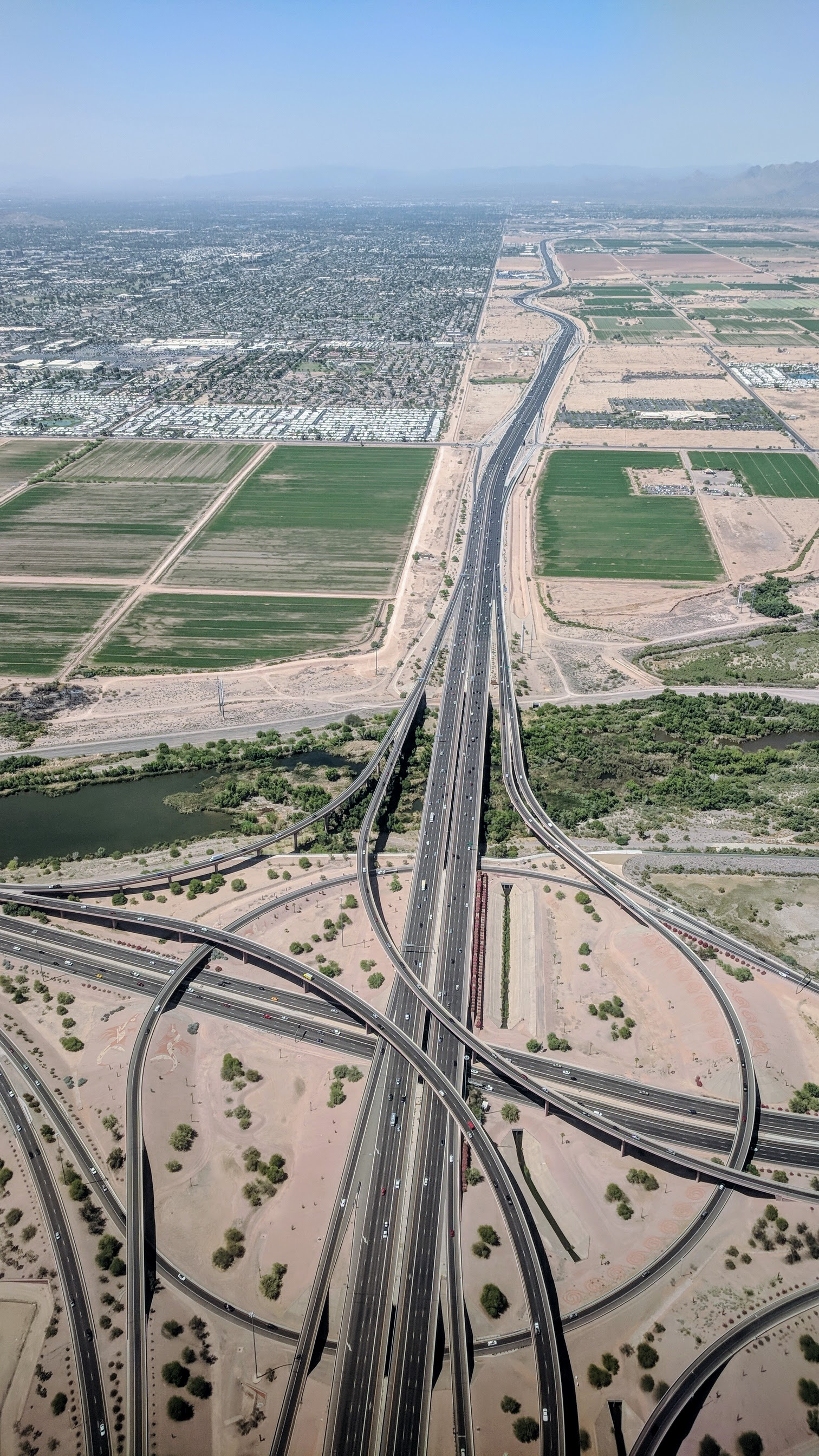 Aerial view, from the south, of the freeway interchange of Arizona state routes 101 and 202 in Mesa (they intersect again further south, in Chandler), with 101 through Scottsdale in the distance.